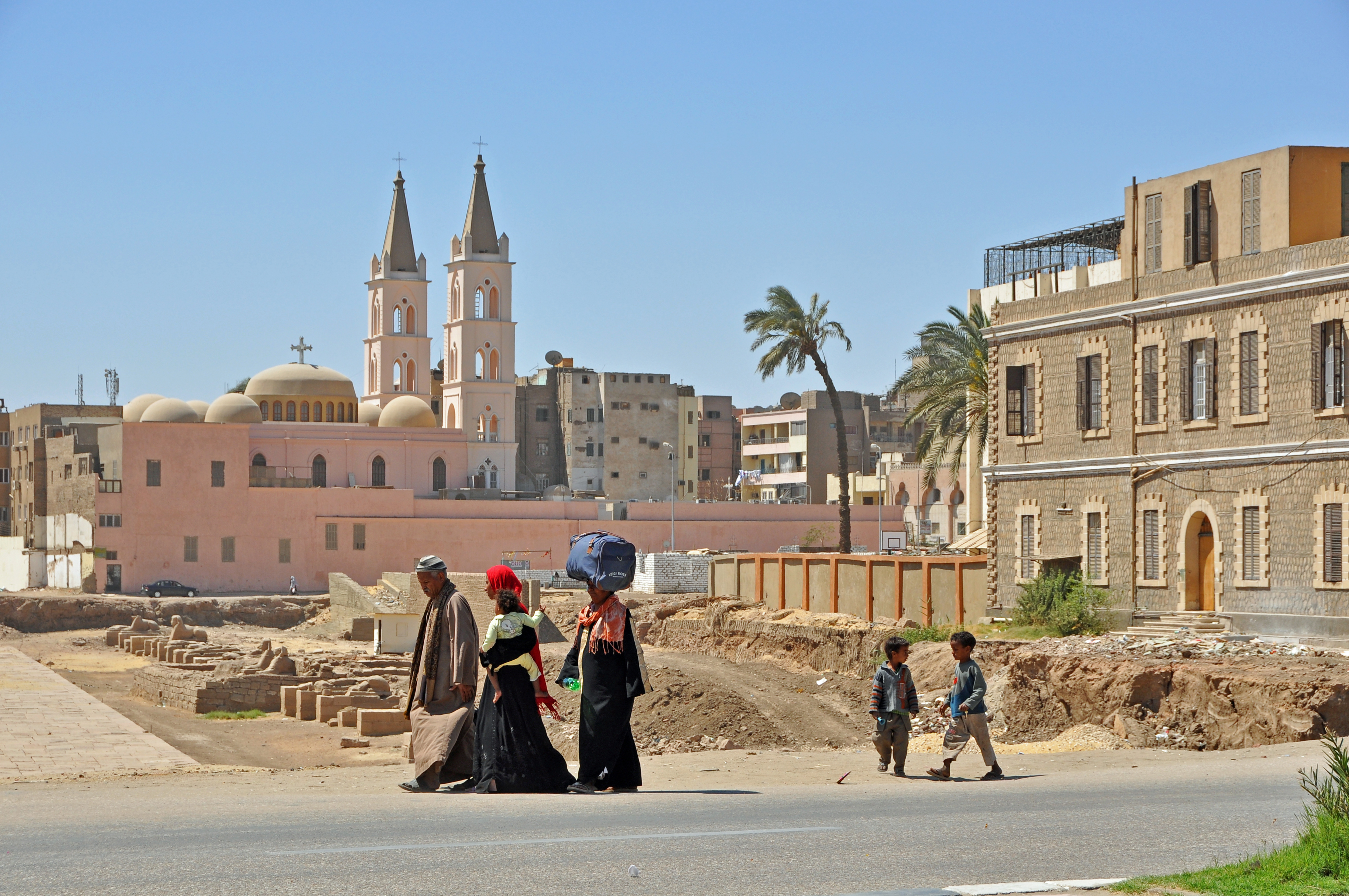 Luxor (Egypt): street scene